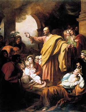 St. Peter Preaching at Pentecost